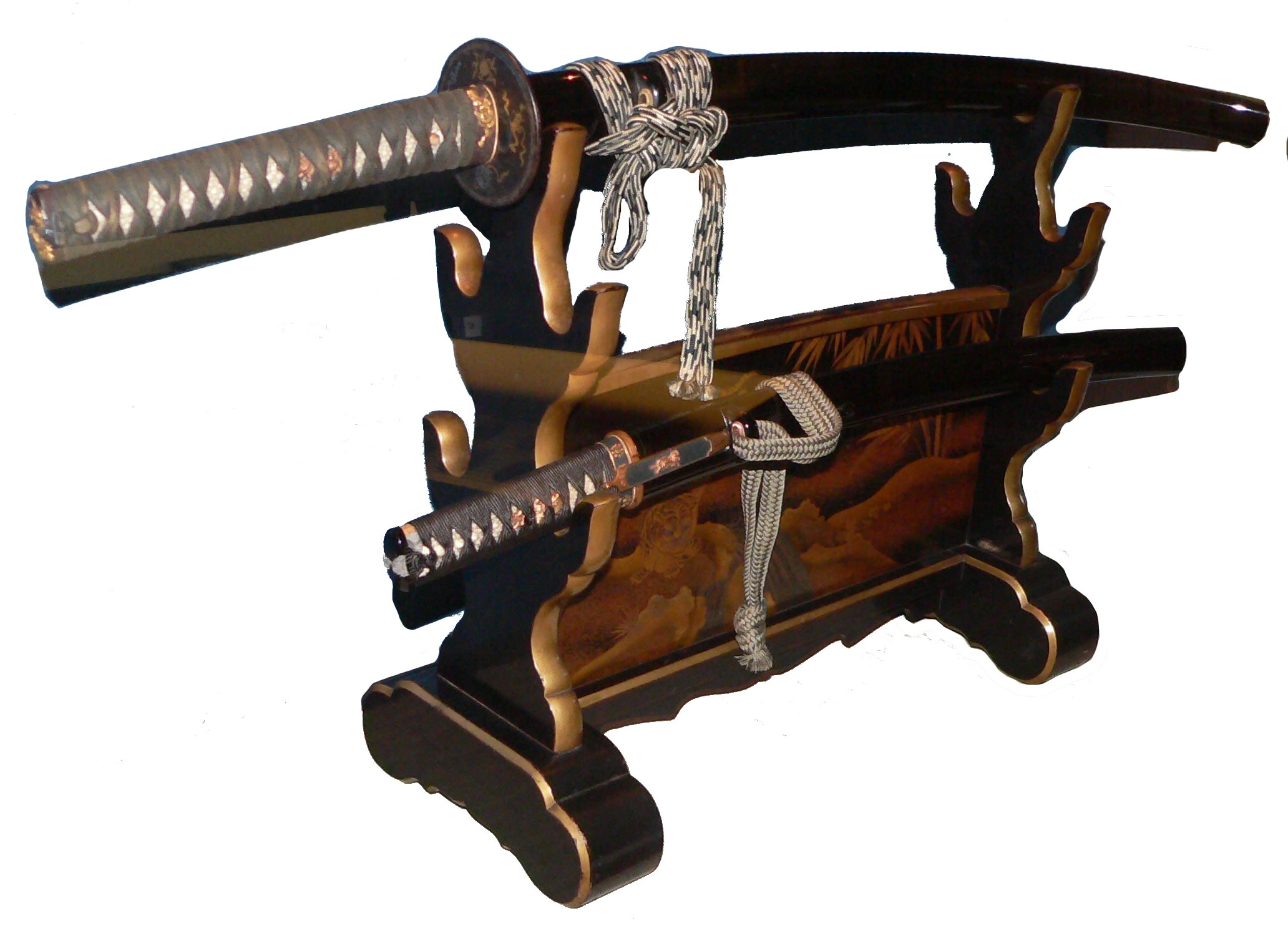 Japanese sword stand katana kake of the horizontal type, holding a matched set of Japanese swords daisho.